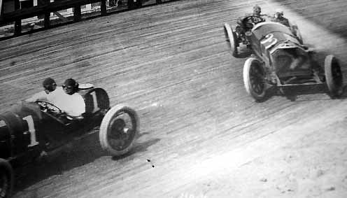 Barney Oldfield and a skidding Jim Parsons, Venice, Calif., March 17, 1915. Barney won the race, a 300-mile event, which was run on a dirt track, although the turns were reinforced with Board Track Racing.